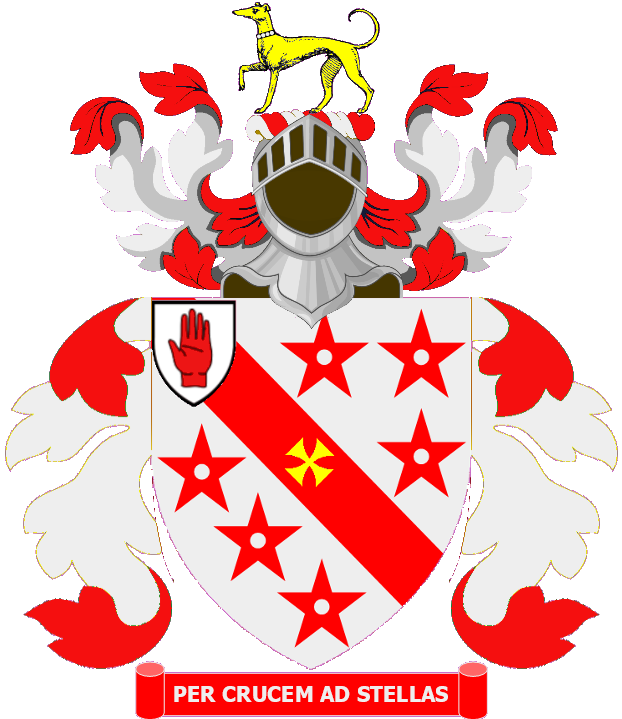 The armorial achievement of the Legard baronets of Ganton